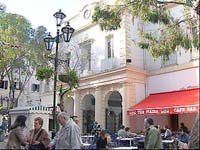 Gibraltar House of Assembly (parliament) - From the street